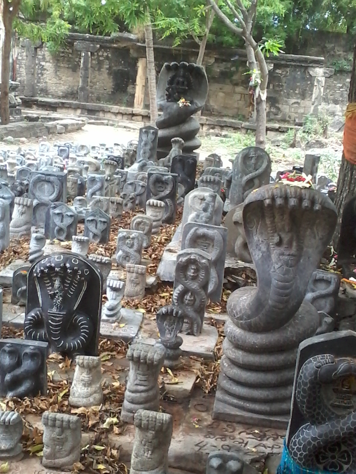 நாக தோசம் நீங்க நாக பூஜை செய்து பாம்பு சிலையை பிரதிஷ்டை செய்தல், இடம் ராமேஸ்வரம்